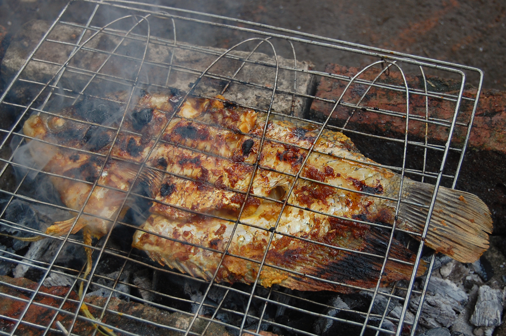 Osphronemus goramy bbq. Darmaga, Bogor, West Java.